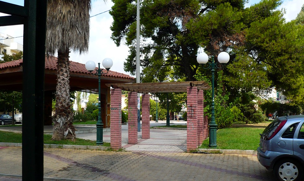 Eleftherias Square